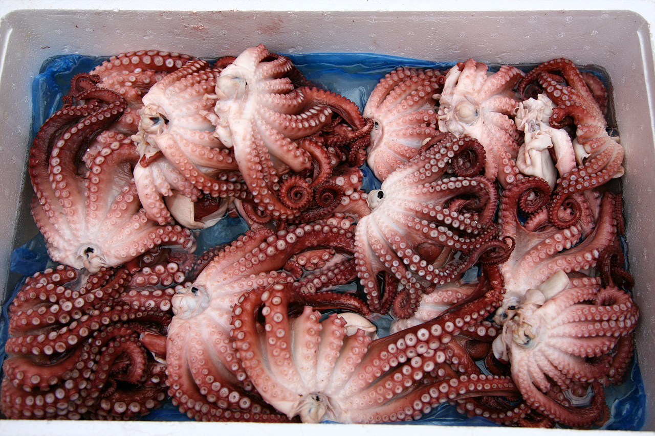 Korean cuisine at a restaurant, South Korea